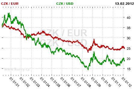 Czech crown - history chart of the CZK and US dollar/euro currency rate